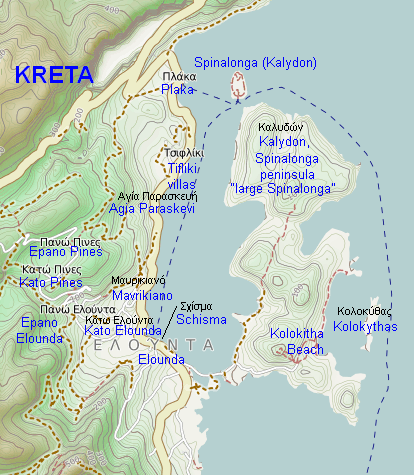 The image shows the area around Elounda and Spinalonga in the eastern part of the island of Crete, Greece.